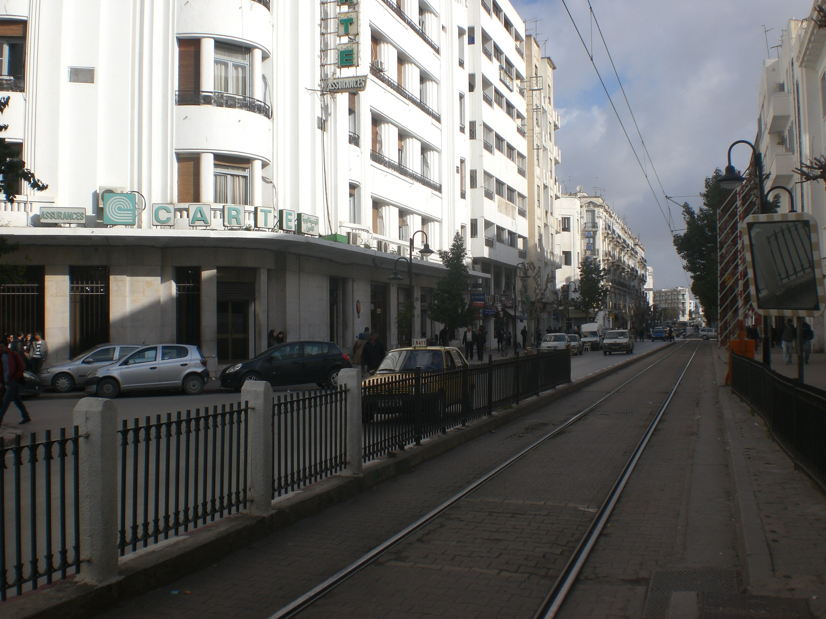 The Avenue Habib Thameur-Tunis